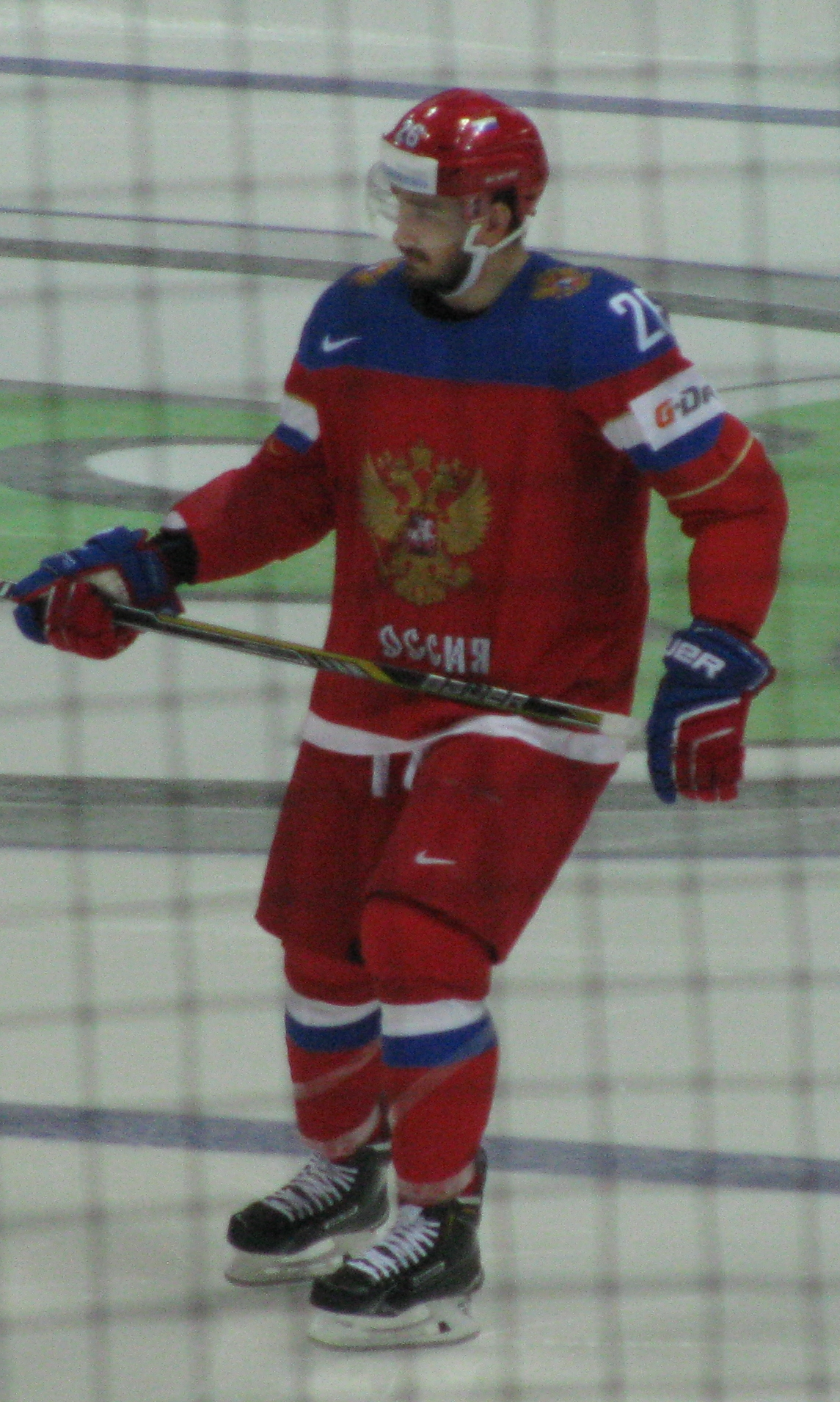 Vyacheslav Voinov as a player of Russia national ice hockey team